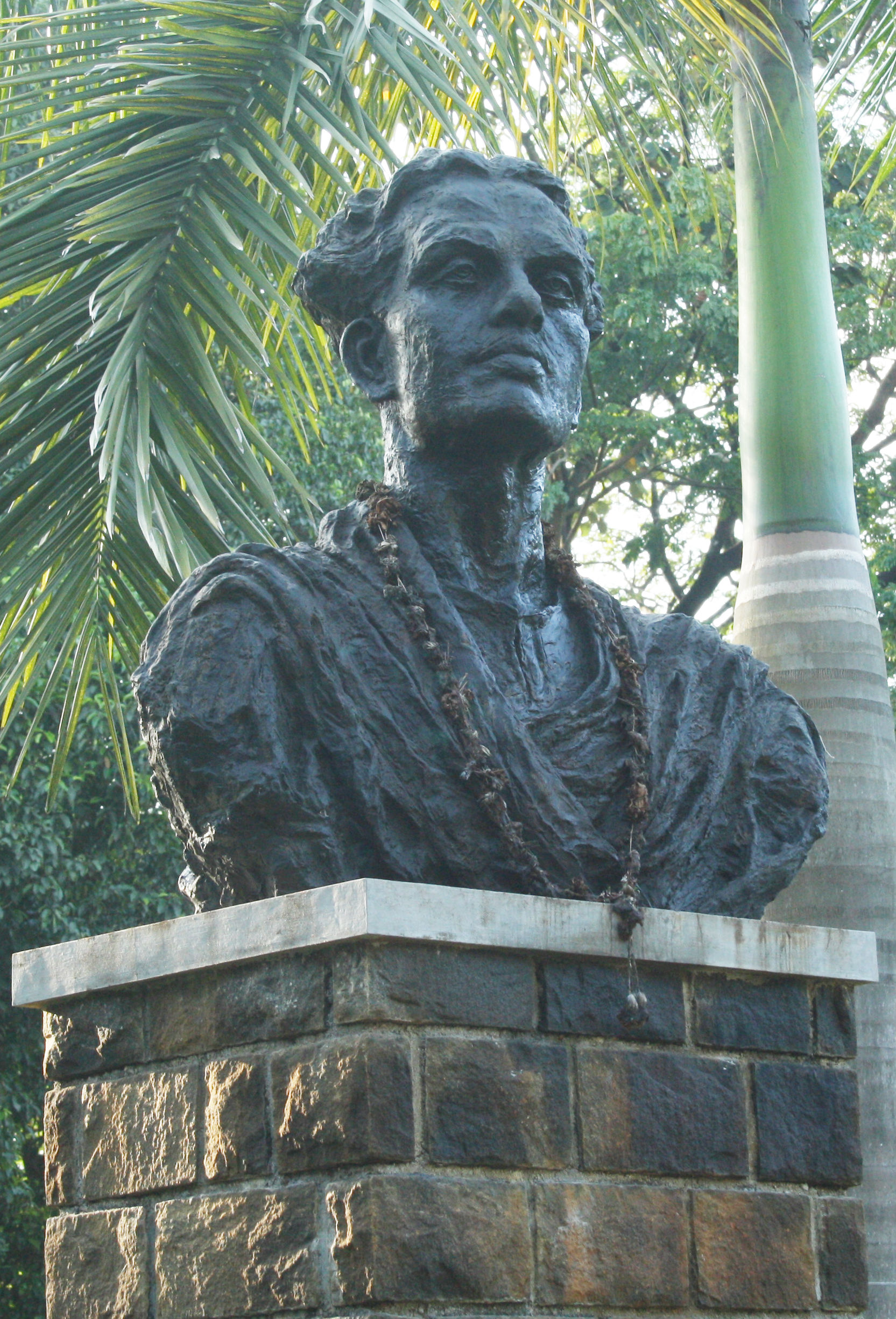 Picture of the statue of Changampuzha Krishna Pillai at Idappally, Ernakulam